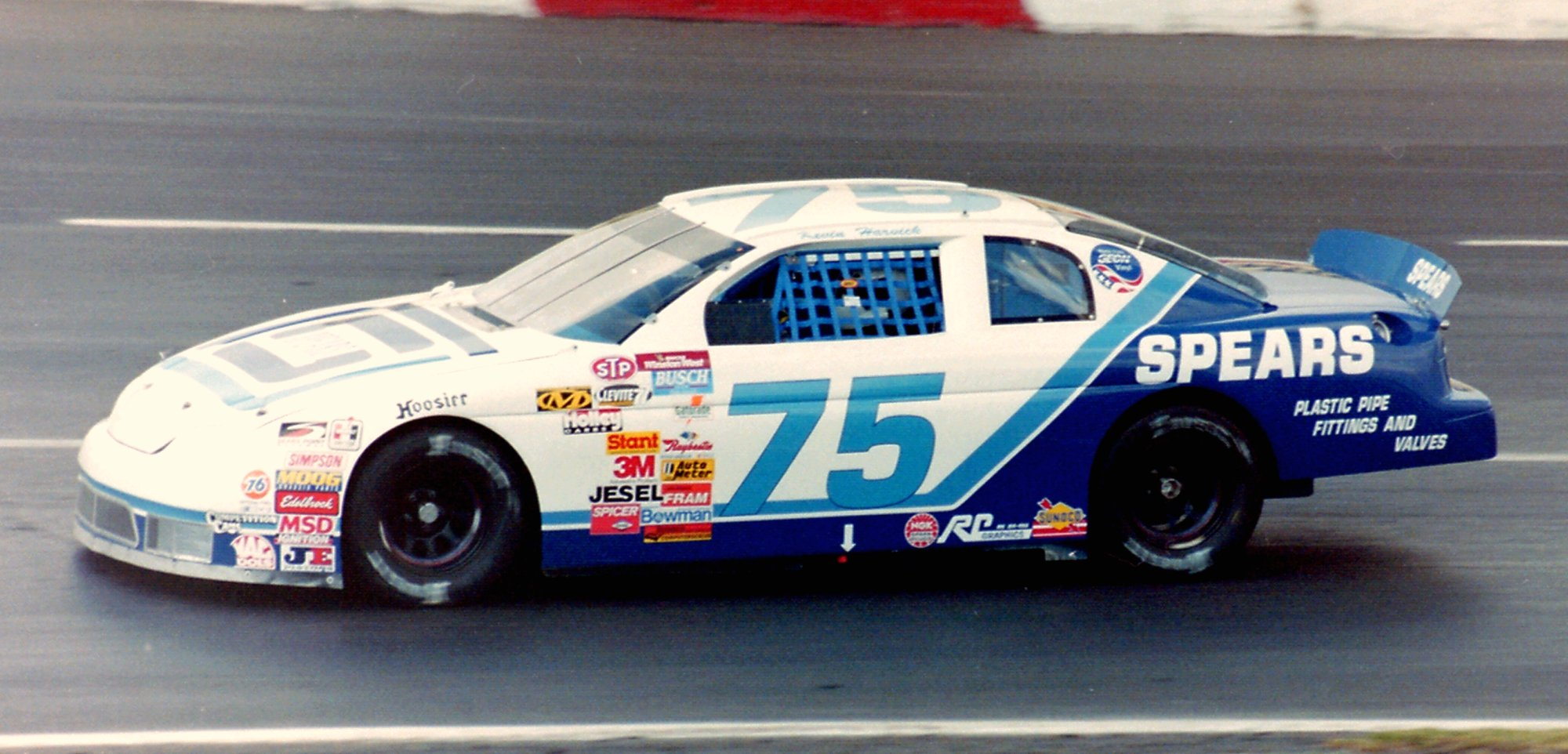 Kevin Harvick drives the No. 75 Spears Manufacturing Chevrolet for Spears Motorsports at Mesa Marin Raceway in the Winston West Series, 1997.